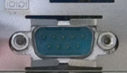 This is a male DE-9 connector from the back of a PC.